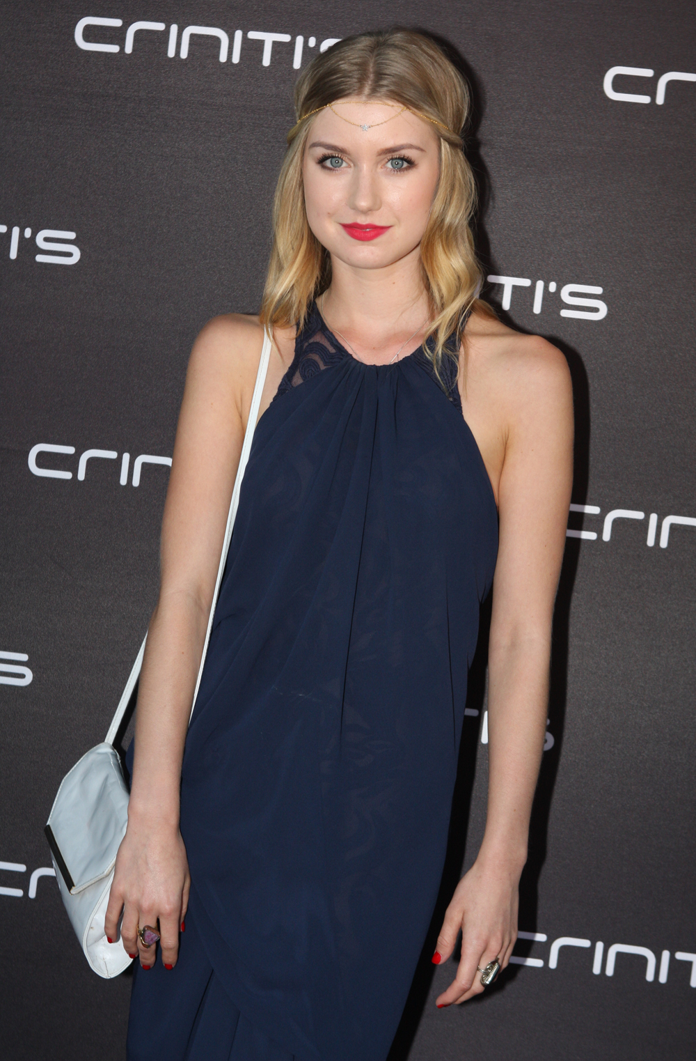 Criniti's celebrated their tenth birthday and rolled out the red carpet tonight. Celebrity guests were treated to their ten most popular dishes. Media... Walking the red carpet and celebrating Criniti's milestone birthday will be Australian television personality Charlotte Dawson, Australian singer Ricki Lee Coulter, Australian model Rachael Finch, former rugby league player Jason Stevens, Roosters star Anthony Minichiello, as well as Home & Away stars Dan Ewing, Rhiannon Fish and Lisa Gornley, The Living Room's Barry Du Bois and Miguel Maestre, The Morning Show's Lizzy Lovette, MTV's Keiynan Lonsdale, Jason and Beck Stevens from Sydney Weekender, Michelle and Martin Walsh from Chadwicks, as well as player from Sydney FC, Manly Sea Eagles and the Roosters. The celebrations will continue as one lucky person will win an all-expenses paid trip to Rome worth over $10,000, plus a three litre bottle of Veuve Clicquot. 2012 X Factor winner, Samantha Jade, will be entertaining guests on the night, with an intimate performance of her number one hit single What You've Done to Me. Celebs: Charlotte Dawson, Ricki Lee Coulter, Rachael Finch, Anthony Minichiello, Dan Ewing and more. Websites Criniti's Eva Rinaldi Photography Eva Rinaldi Photography Flickr